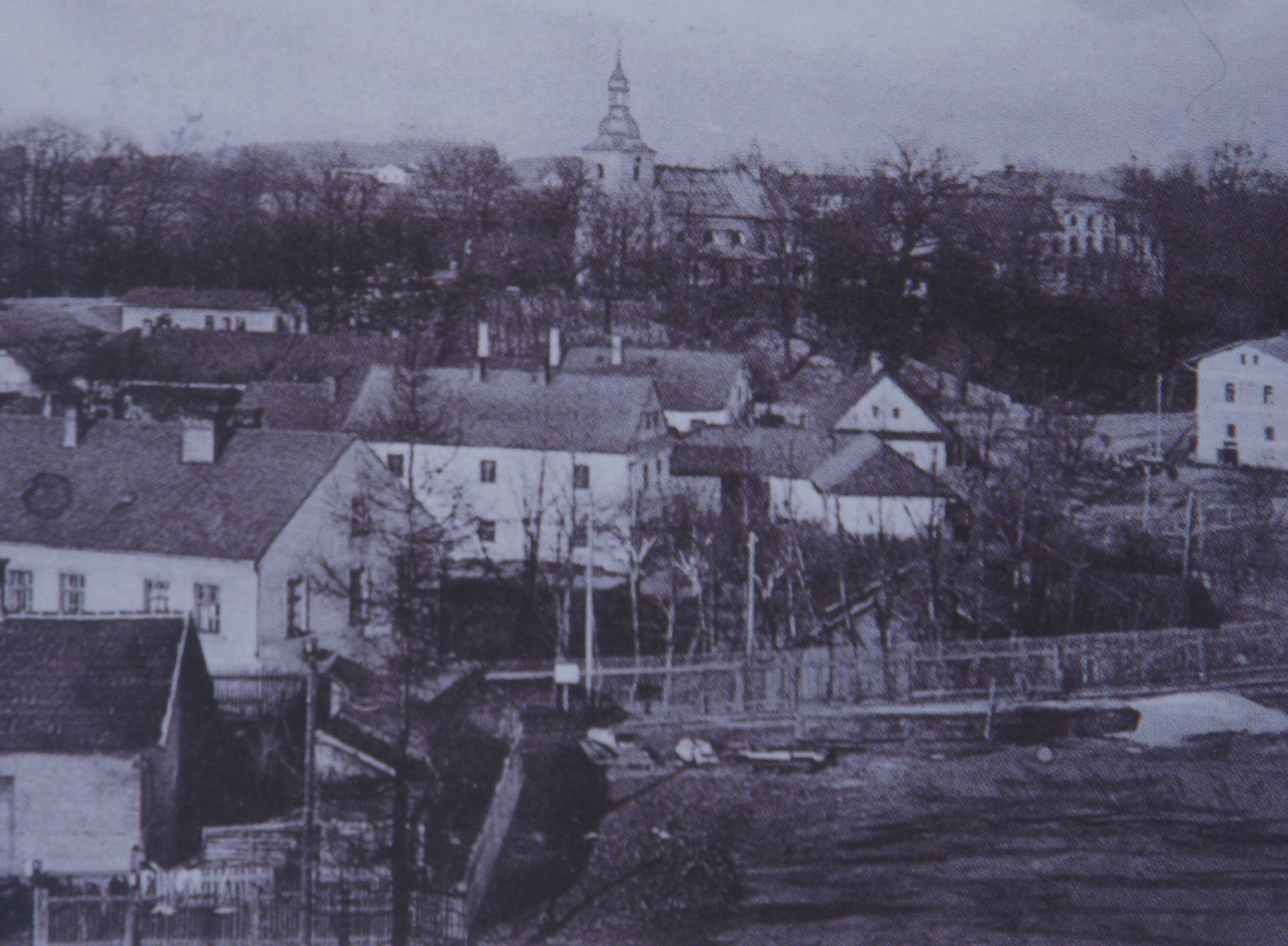 An old photo of Church in Orlová taked before 1903.